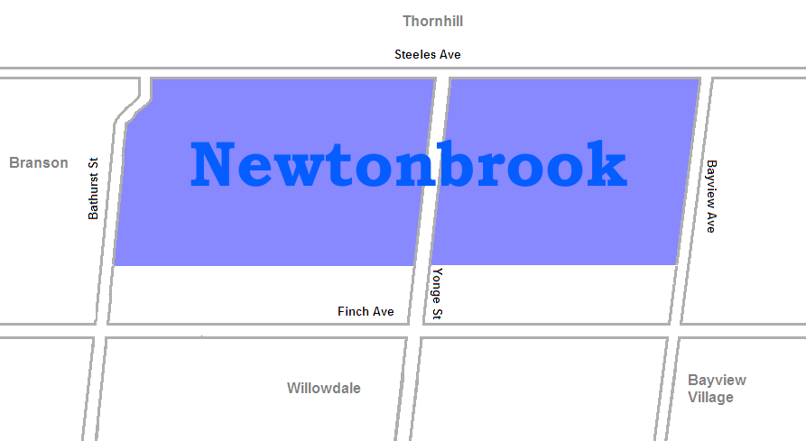 map of Newtonbrook